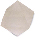 Octahedral Crystal